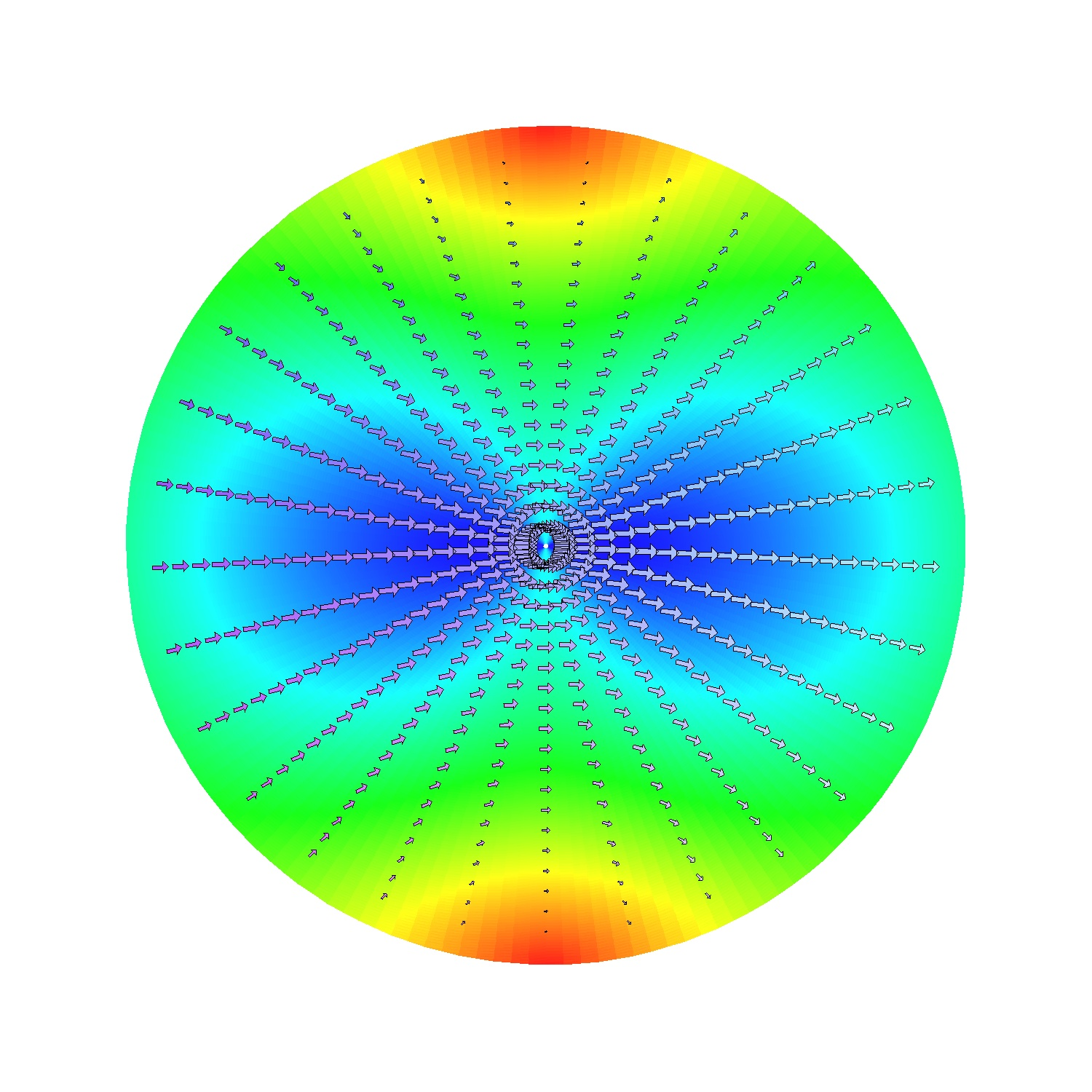 Plot of E and H fields on the TEnl mode defined by n and l.